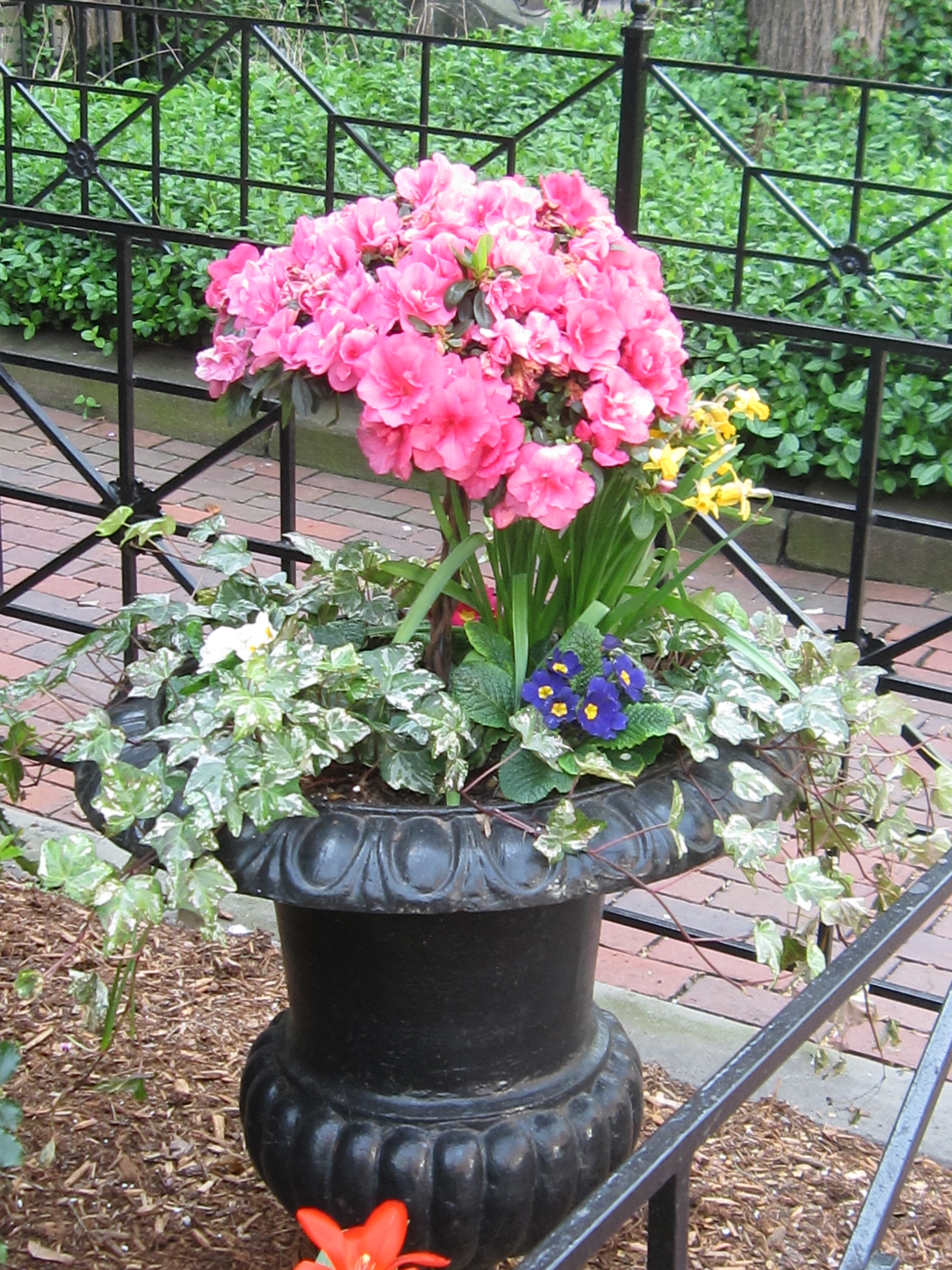 Boston, Massachusetts, USA. Hedera algeriensis (Algerian Ivy) and flower bulbs in planter.